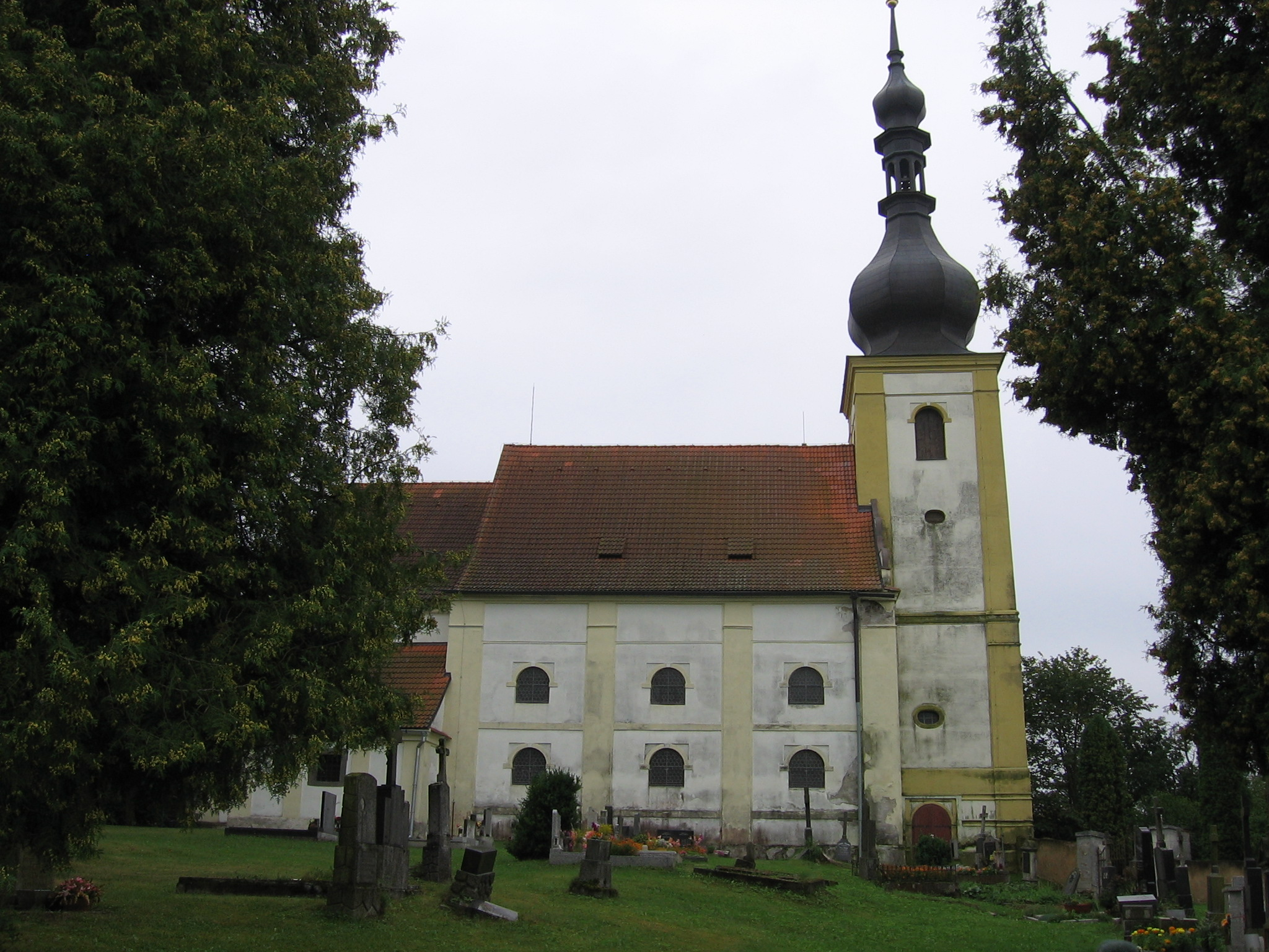 Brod nad Tichou - St. James church